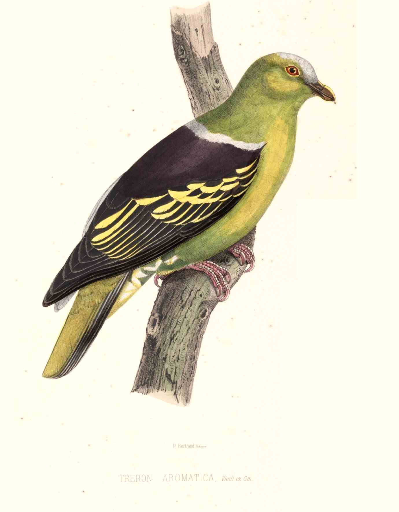 Treron aromatica (Treron aromaticus)